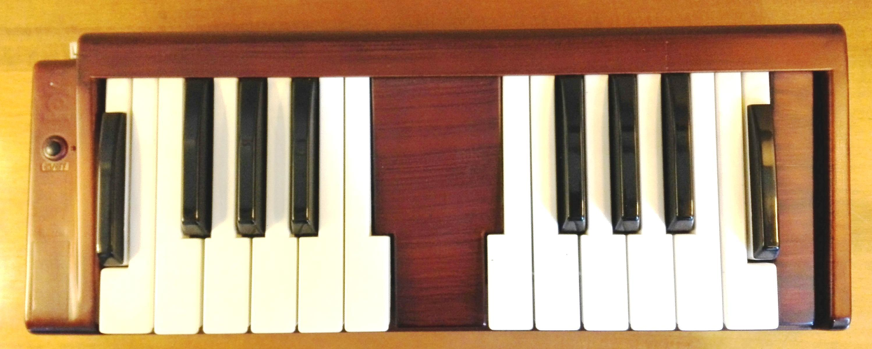 Michela-MIDI shorthand keyboard